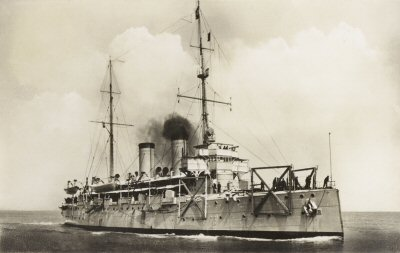 Dutch protected cruiser Gelderland as target during a practice